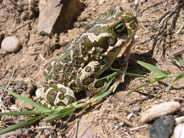 Female Bufo viridis from Chios/Greece.